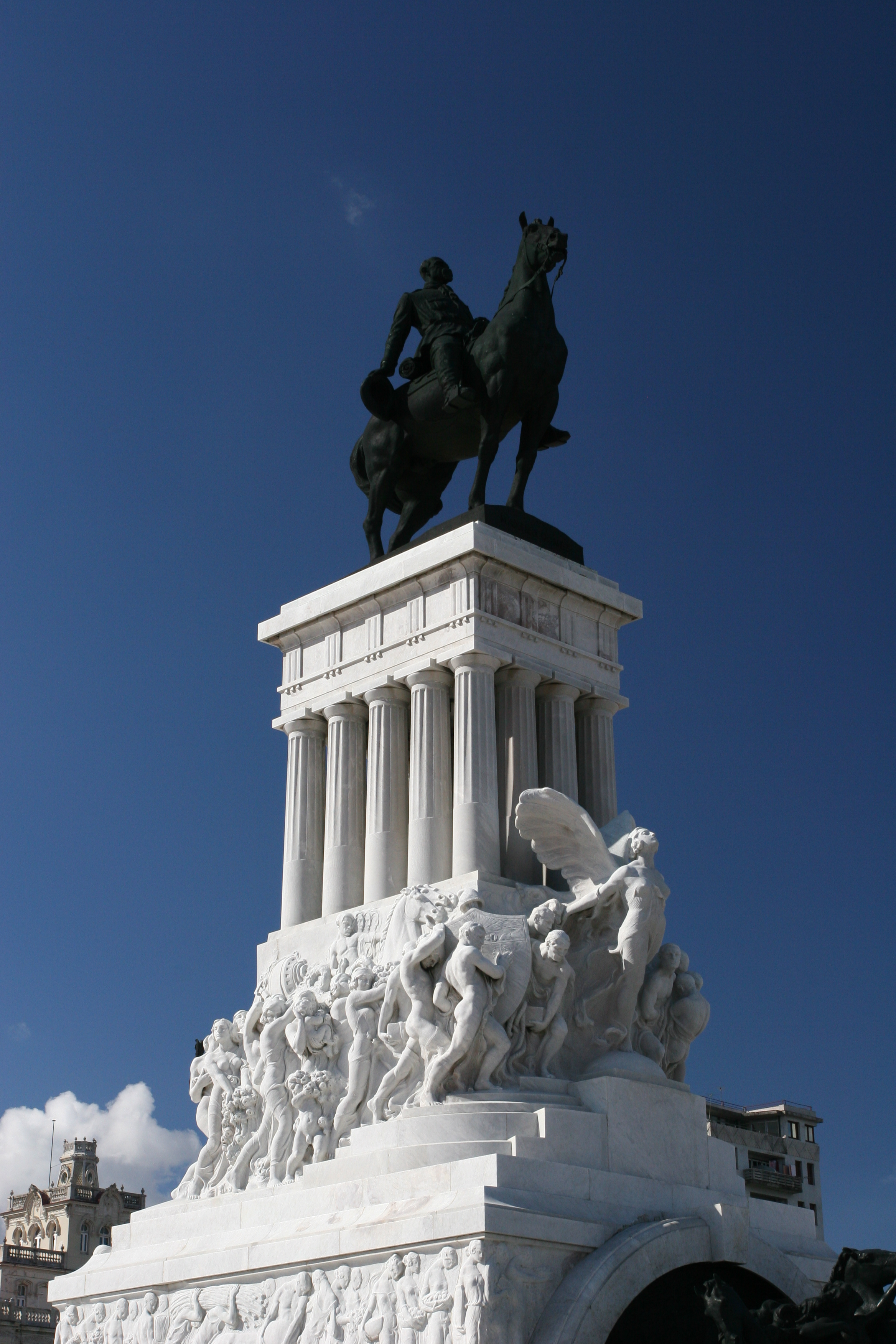 Monumento a Máximo Gómez en La Habana, Cuba.